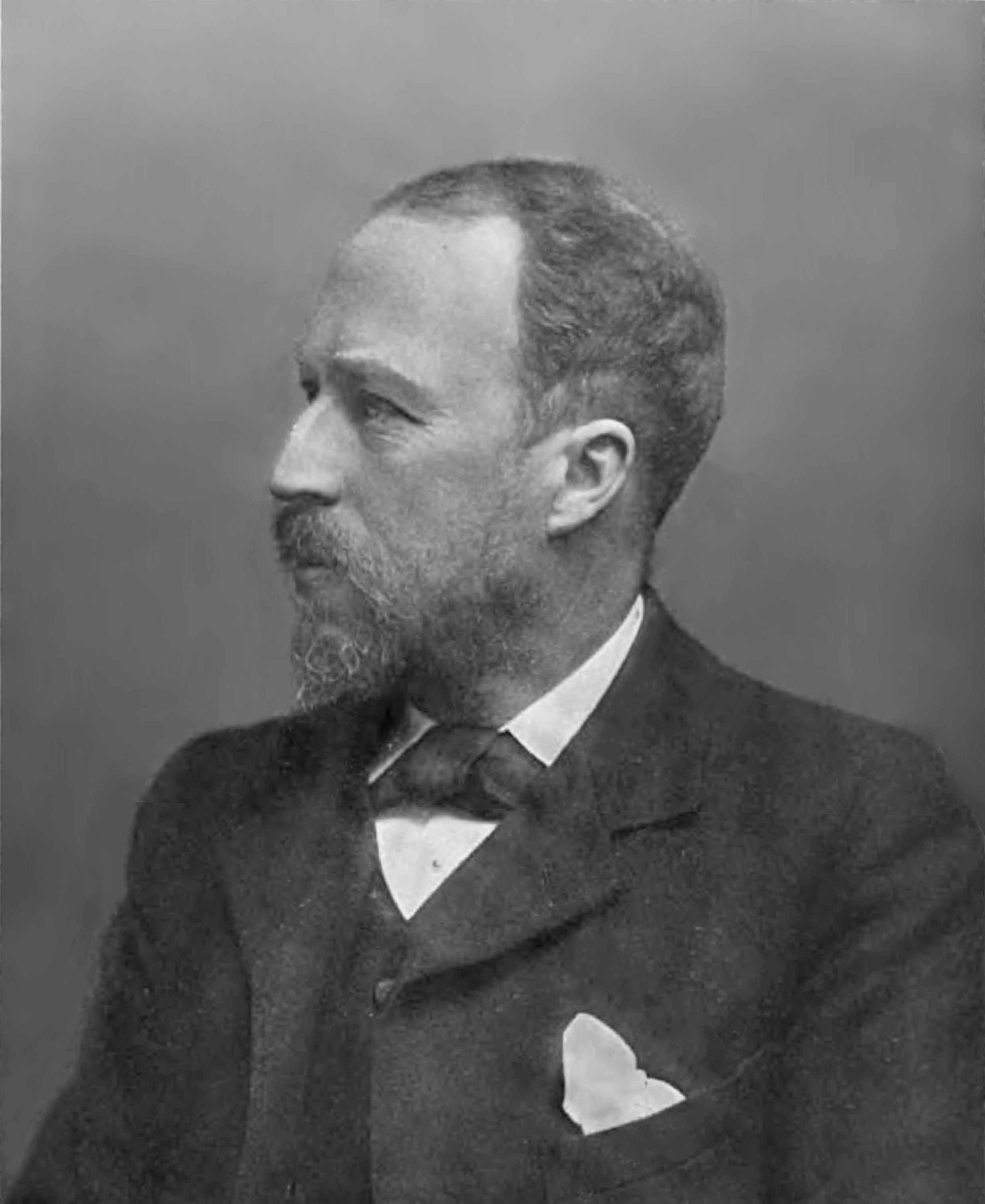 Charles Harford Lloyd (Thornbury, 16 October 1849 – Slough, 16 October 1919) was an English composer and organist.